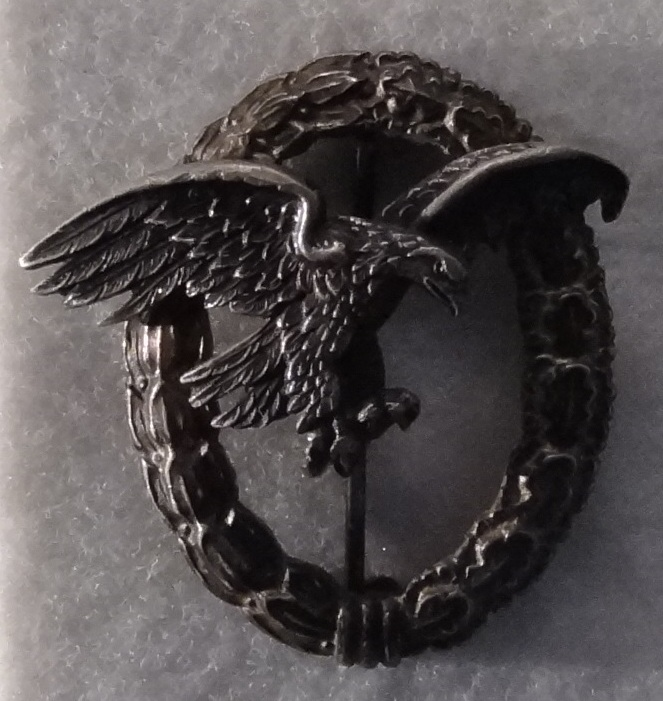 Luftwaffe Observer Badge (1957 edition) on display at the Bundeswehr Military History Museum